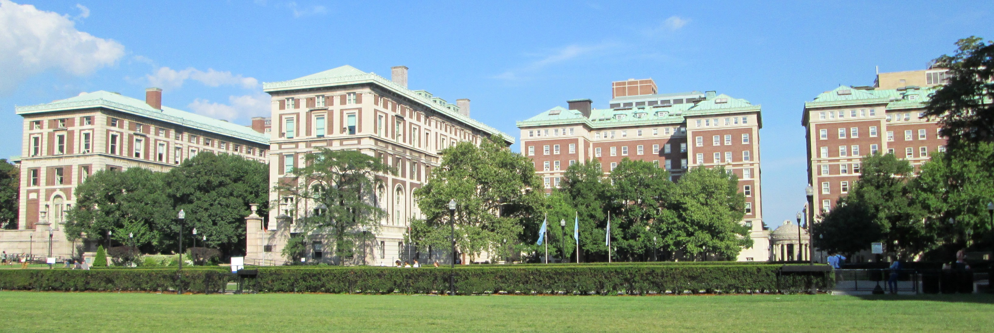 Columbia University's Morningside Heights campus as seen from the west. Depicted are (from left to right): Kent Hall – 1911, McKim, Mead & White Hamilton Hall – 1905-07 McKim, Mead & White Hartley Hall – dormitory, 1905, McKim, Mead & White Wallach Hall – dormitory, 1905, McKim, Mead & White